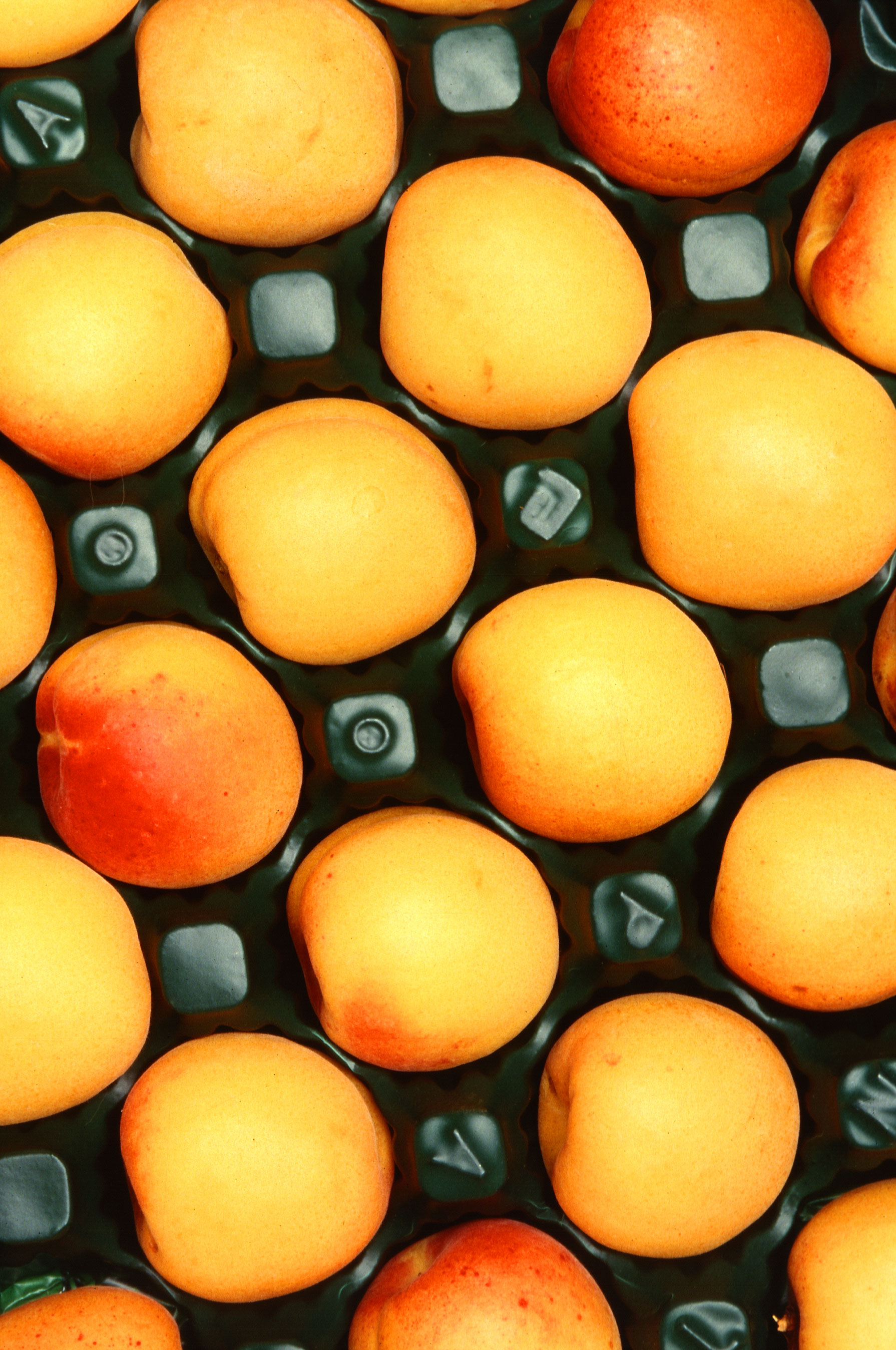 In the United States, Castlebrite is the best-selling apricot in fresh-market sales.